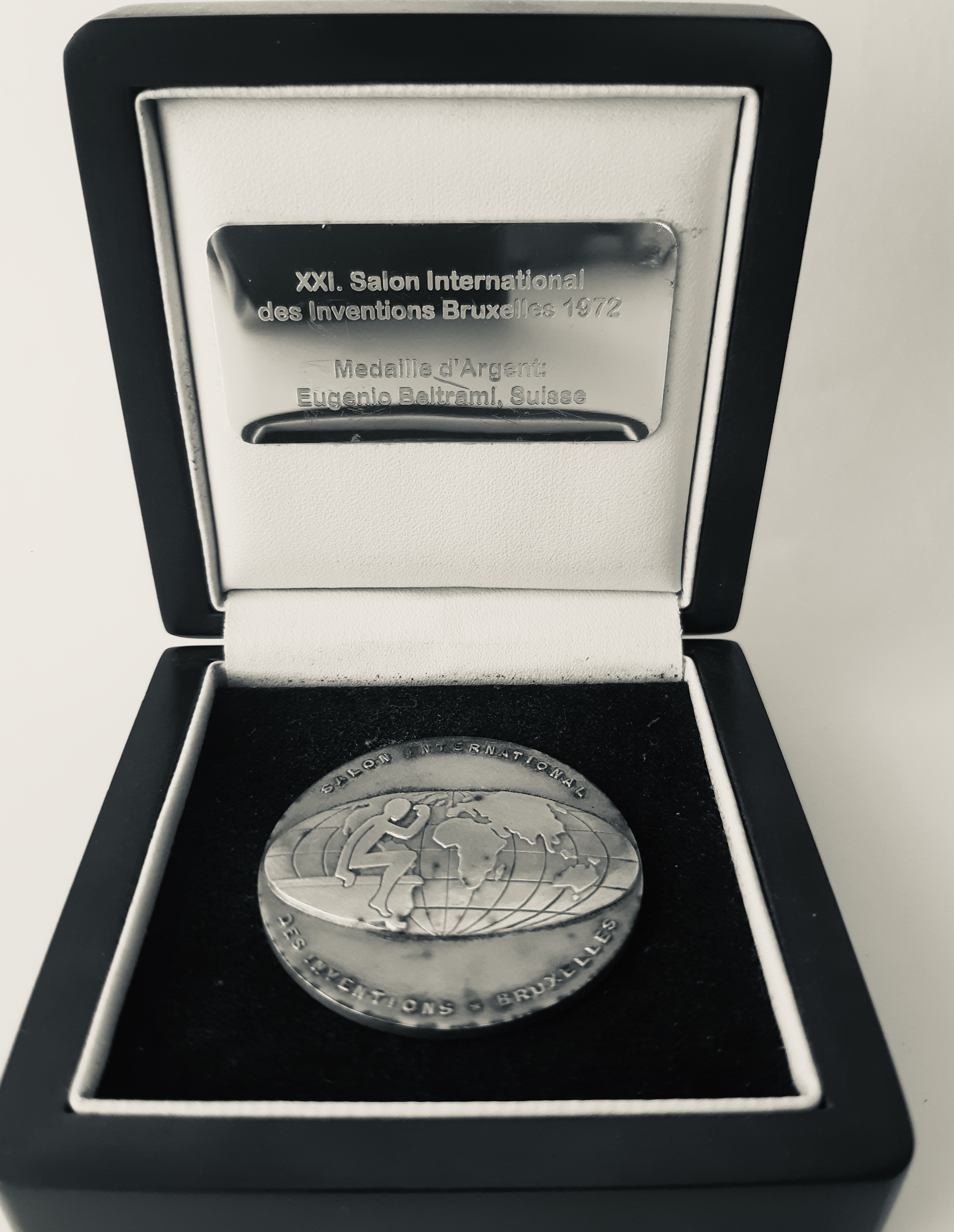 Inovationsmesse in Brüssel, Silbermedaille 1972